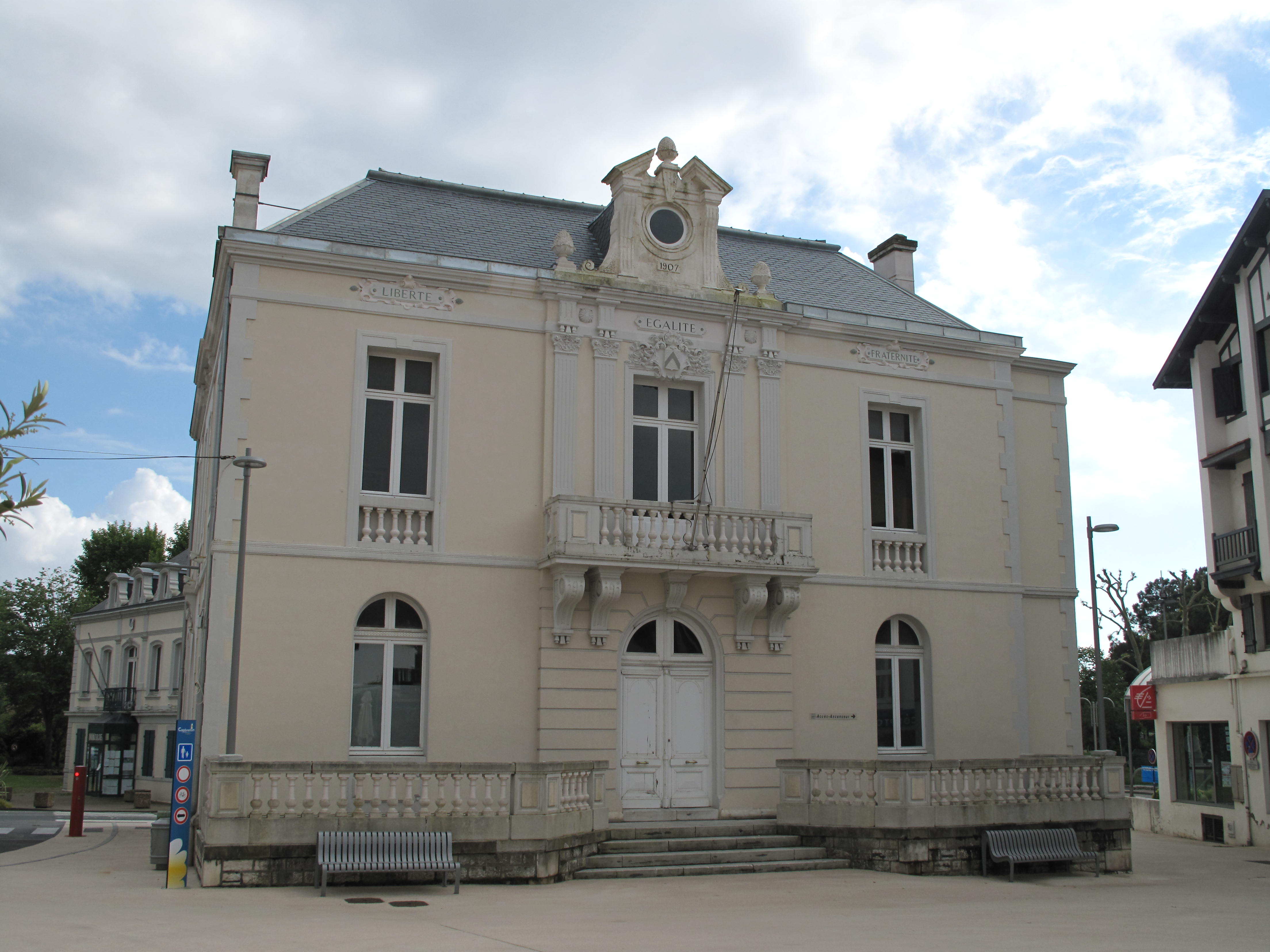 The hotel de ville and former town house of Capbreton (Landes, France).